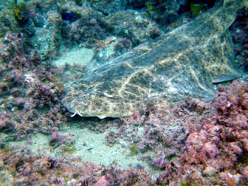 Angelshark (Squatina squatina) off Chico Beach, Lanzarote, Canary Islands.